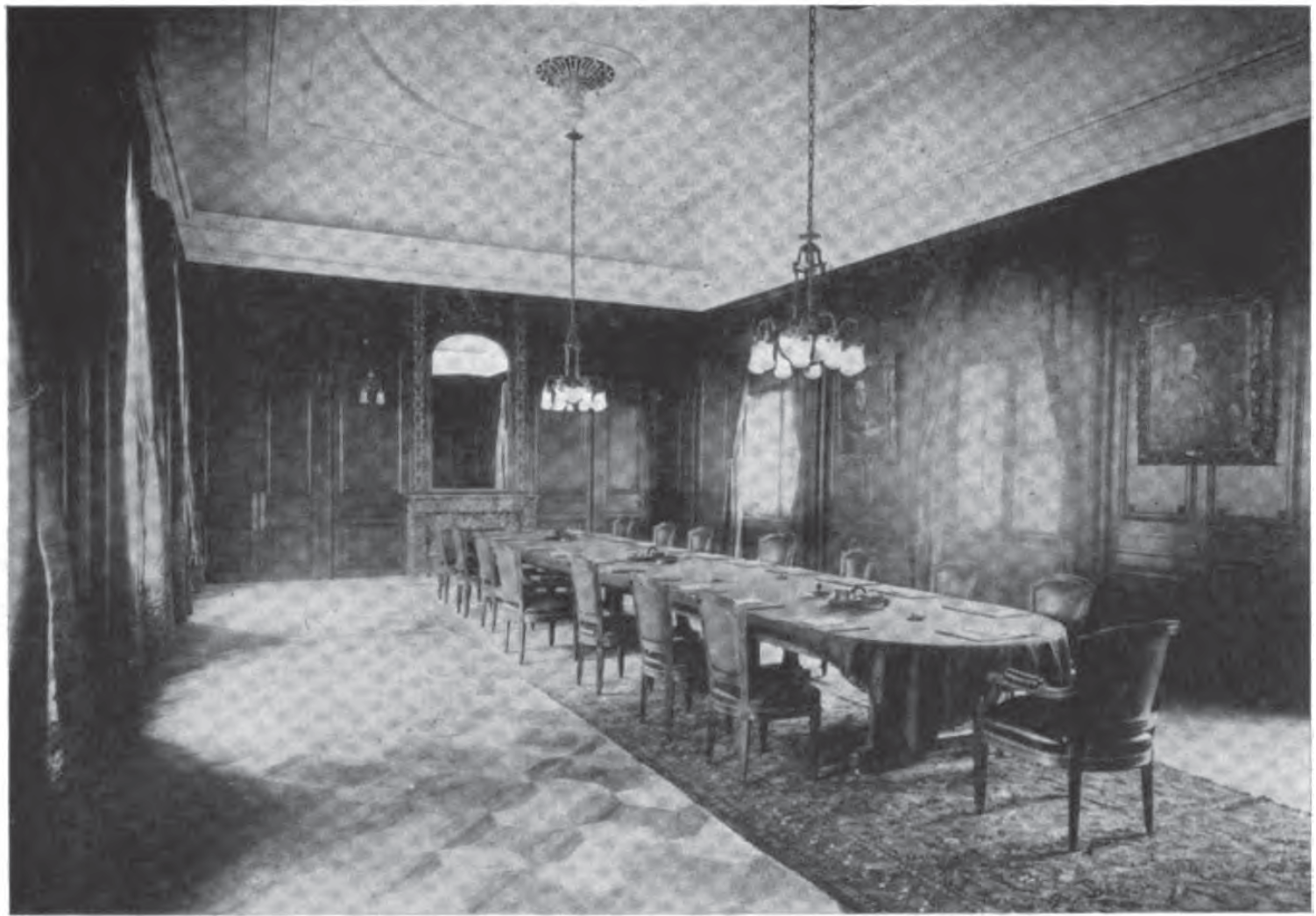 Board room of Swiss Bank Corporation, one of the two predecessors of UBS AG c.1920